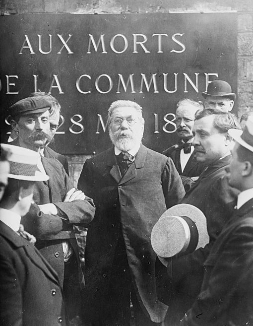 French politician Édouard Vaillant (1840-1915) with others in front of the Mur des Fédérés (Communards' Wall) at the Père Lachaise cemetery in Paris